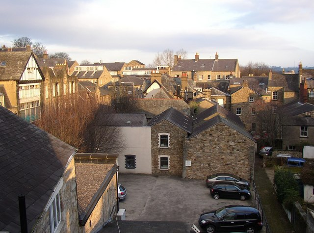 Urban infill, Lancaster The central part of this view was a garden in the early 18C. This was let or sold piecemeal, and various small buildings have filled the space between China Street on the left, Church Street going across at the far end and Sun Street out of sight on the right. The narrow street is Back Sun Street. This view is from the roof of The Music Room.